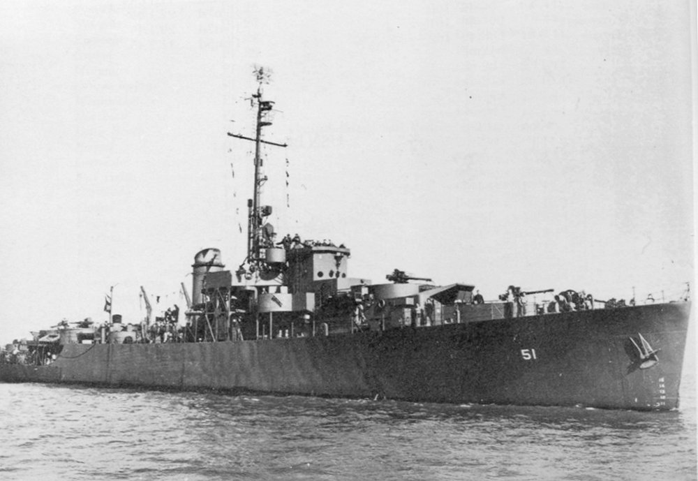 United States Navy patrol frigate USS Burlington (PF-51)